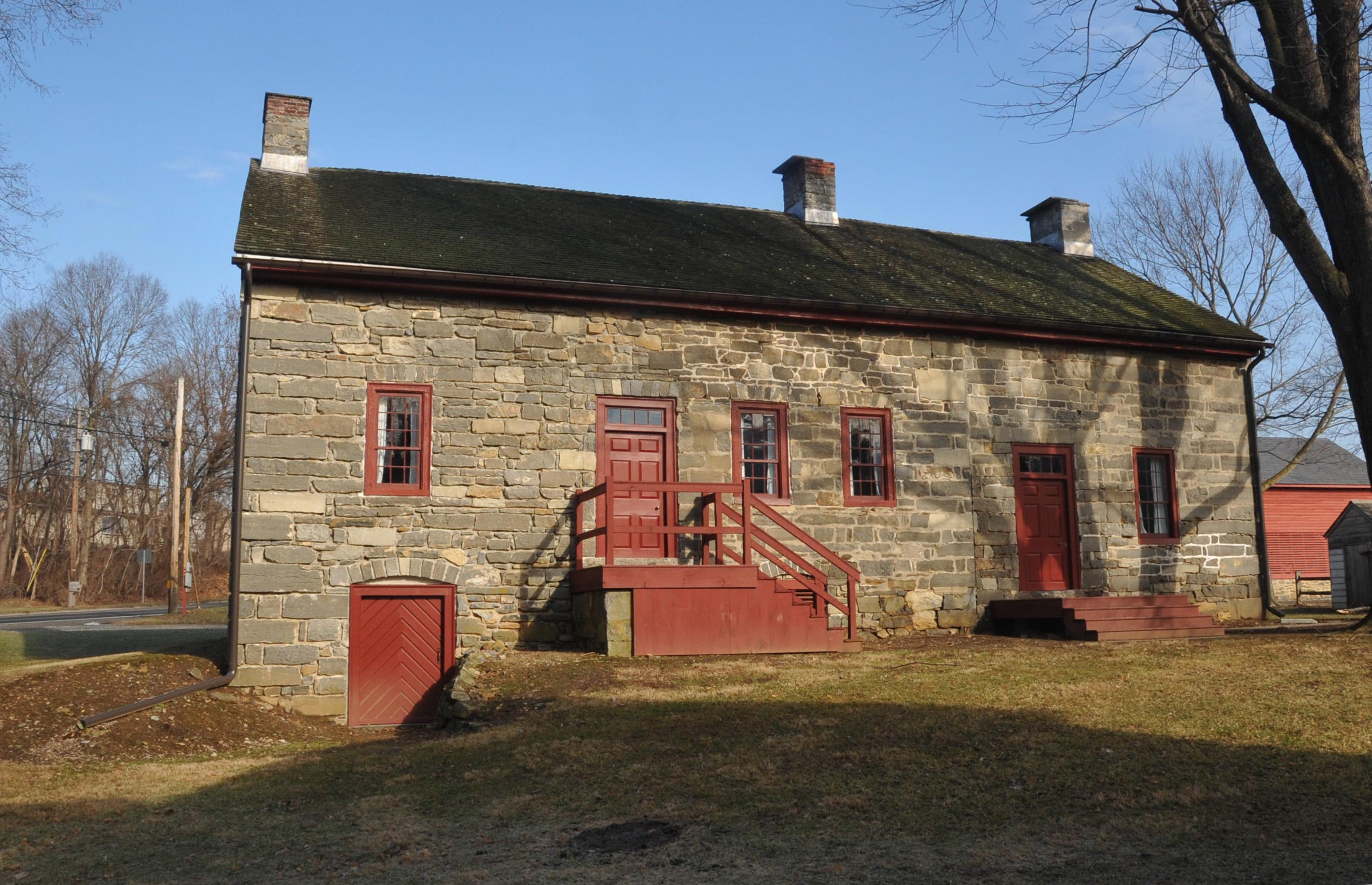 JOHN VAN NEST SETTLED THE 768 ACRES AROUND 1755; THE BROTHERS JOHN AND ABEL HOFF ACQUIRED THE PROPERTY IN THE EARLY 19TH CENTURY WILLIAM VANNATTA ACQUIRED THE SOUTHERN HALF IN 1856; THE FARMHOUSE DATES TO 1755. A SUMMER KITCHEN AND BANK BARN ALSO ARE ON THE PROPERTY FROM THE EARLY 19TH CENTURY